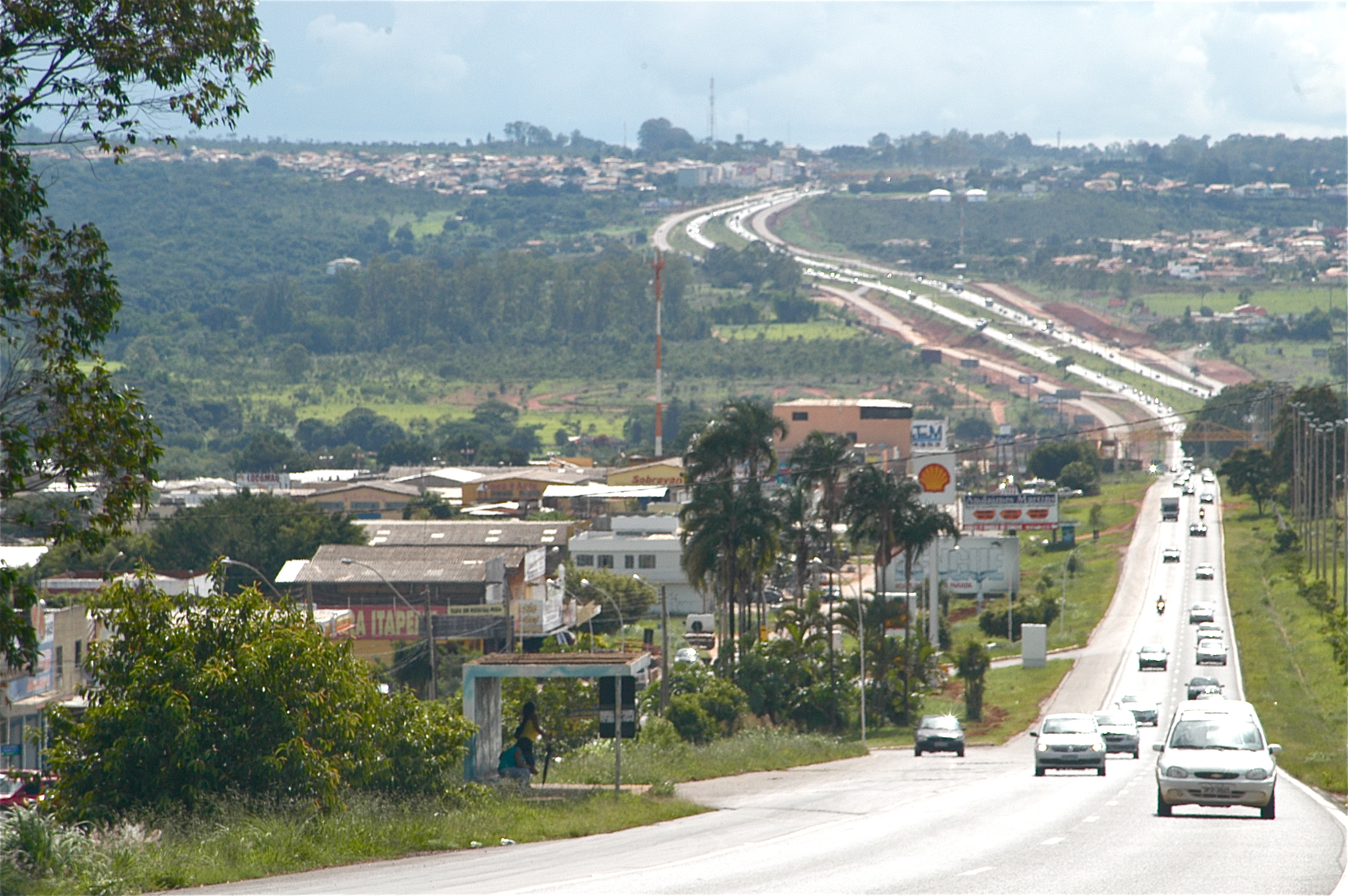 BR 020, a brazilian road in Sobradinho, Distrito Federal.